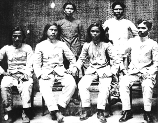 Macario Sakay and his officers. Photographer unknown. Image is in the Public Domain.